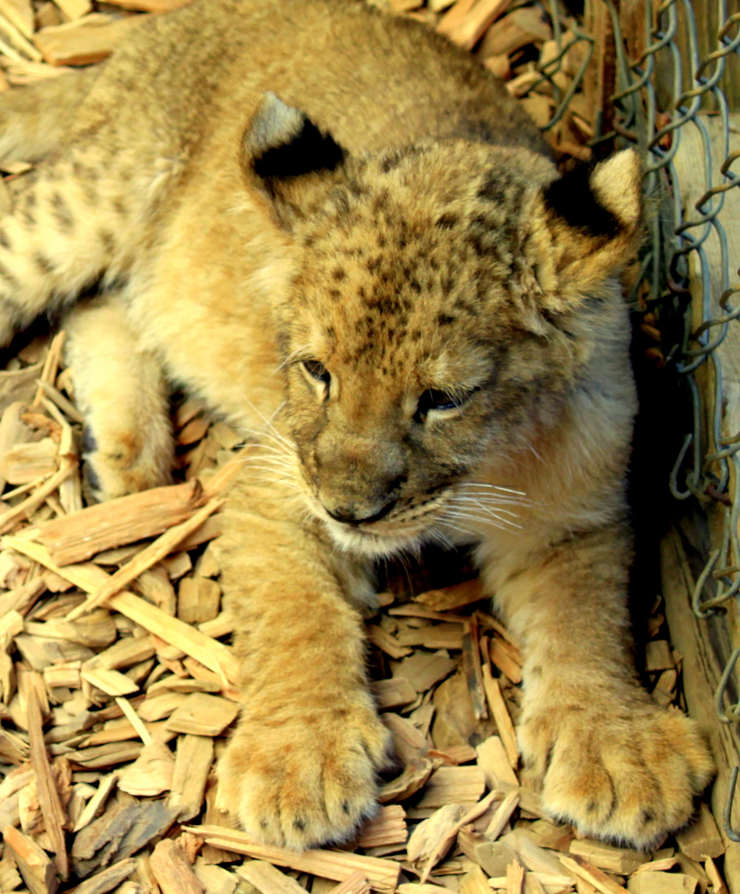 Bella the lion at the West Coast Game Park Safari in Bandon, Oregon.